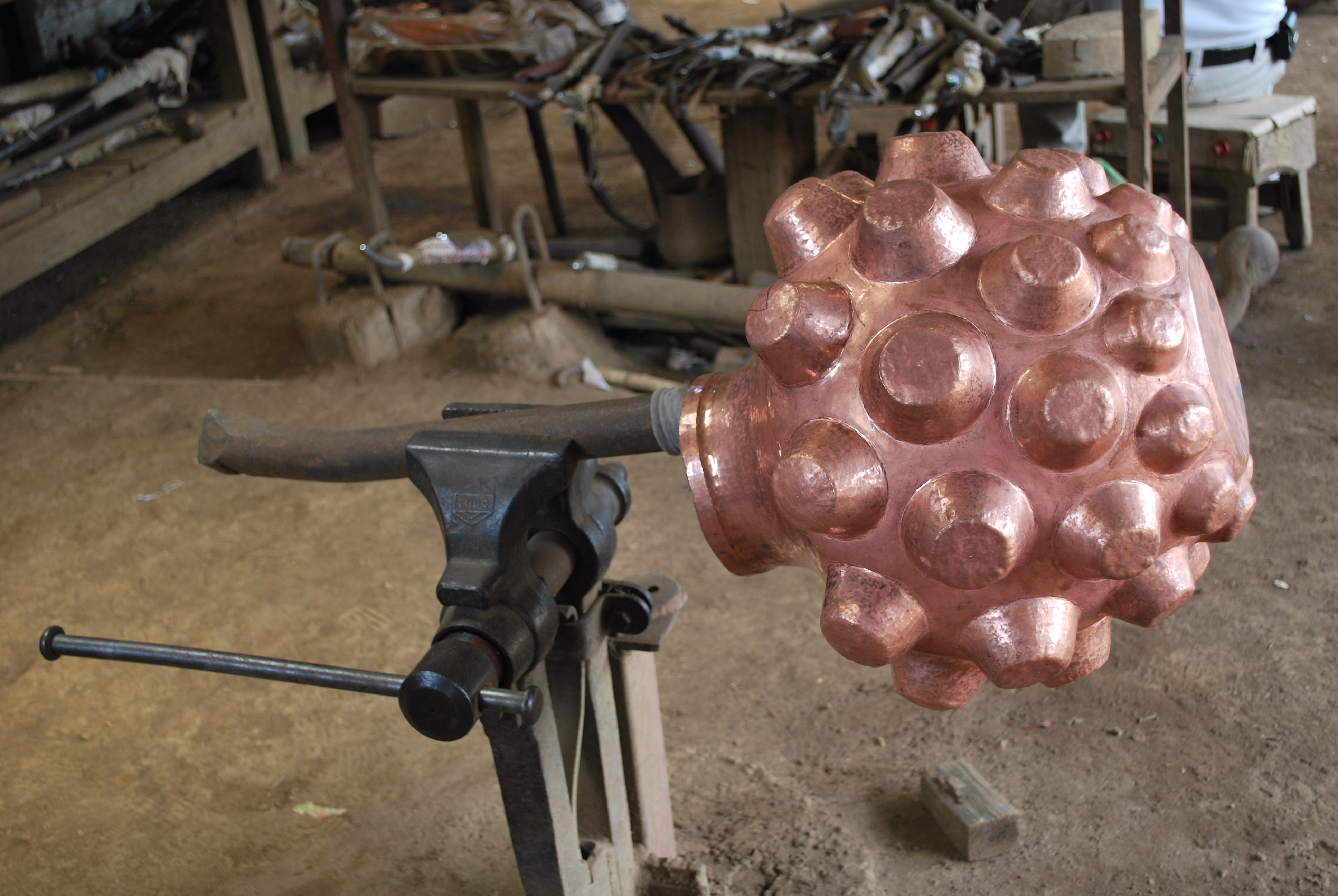 Copper vessel in process at the Abdón Punzo workshop in Santa Clara del Cobre, Michoacán